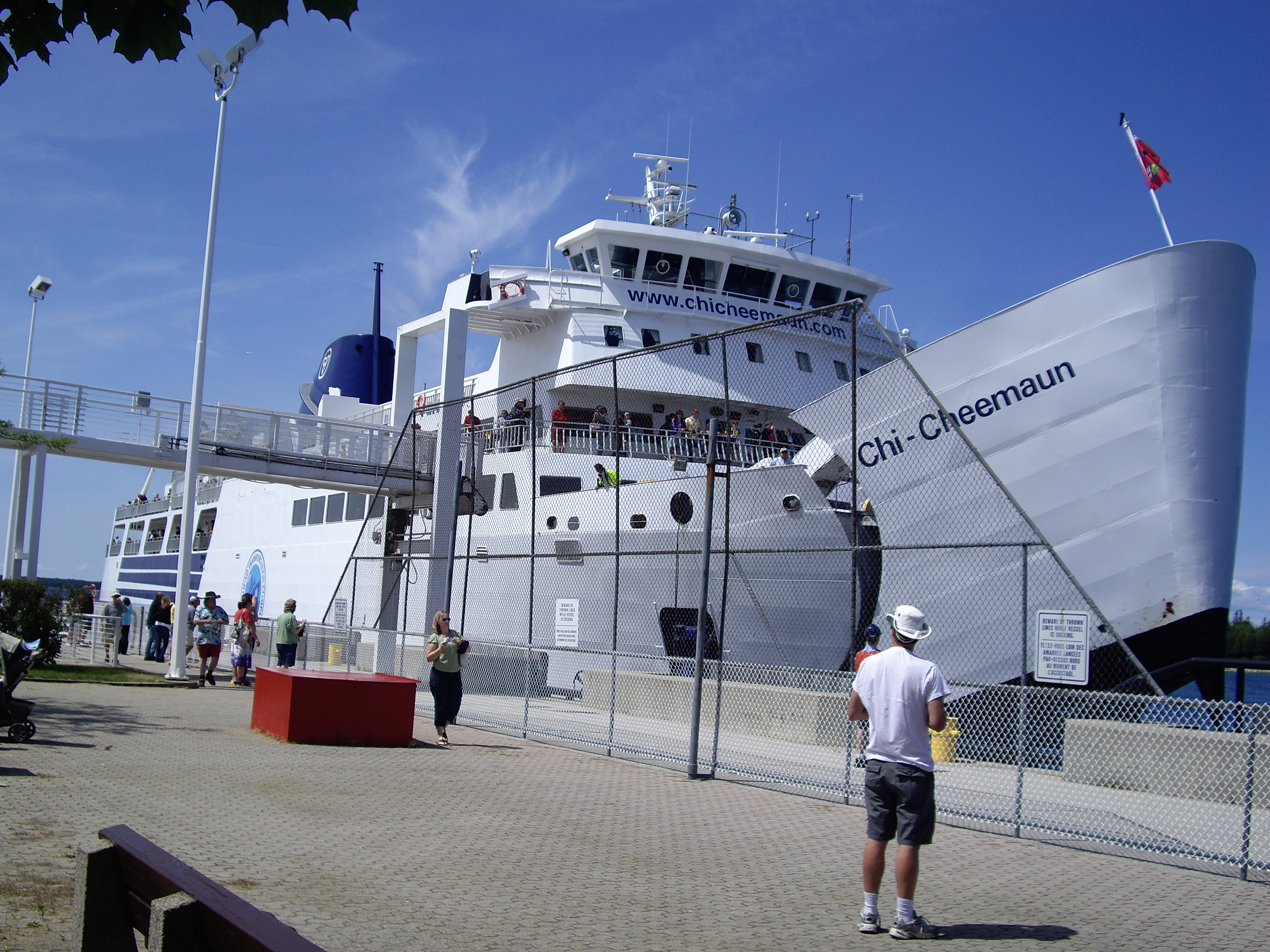 Chi-Cheemaun ferry landing at Tobermory near Front Street and Carlton Street.